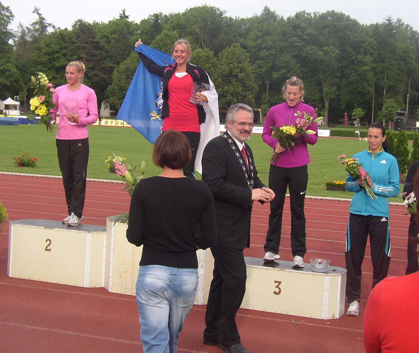 Top scoring athletes in women's heptathlon during victory ceremony at 4th edition of the TNT - Fortuna Meeting (IAAF World Combined Events Challenge Meeting, Sletiště Stadium, Kladno, Czech Republic, 16 June 2010, 18:50). left to right: Marina Goncharova (RUS) 6182 points, 2nd place Eliška Klučinová (CZE) 6268 points (NR), 1st place Lyudmila Yosypenko (UKR) 6142 points, 3rd place Hanna Melnychenko (UKR) 6045 points, 4th place Mayor of Kladno city Dan Jiránek (decorated with ceremonial chain of his office) is leaving the spot after expressing his congratulations to the winner. Notice the flag of Kladno on Klučinová's shoulders (the competition took place on her domestic stadium).